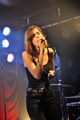 Photo of Hayley McGlone performing as front-woman for The Jezabels.